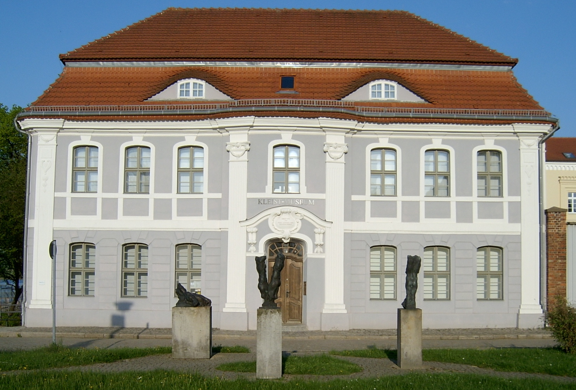 Former Garrison School (today Kleist Museum/Kleist Memorial and Research Centre) in Frankfurt (Oder), Germany.